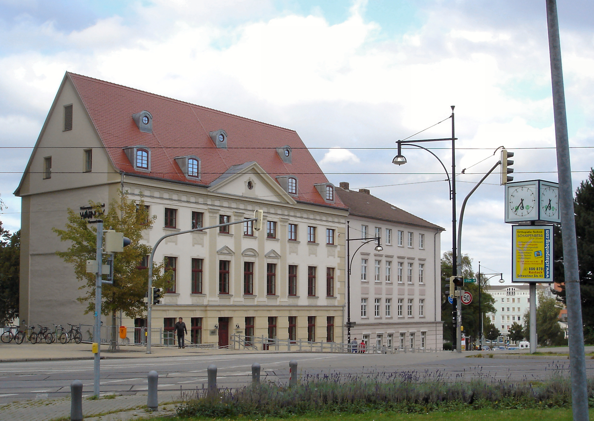 Street Vogelsang with house no. 14, the former Knighthood Library, built in 1832, in Rostock in Mecklenburg-Hither Pomerania, Germany